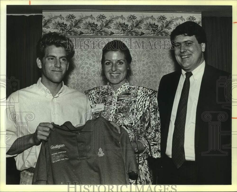 Historic Images - 1988 Press Photo Reception for finalists of USA Modern Pentathlon Olympic Team